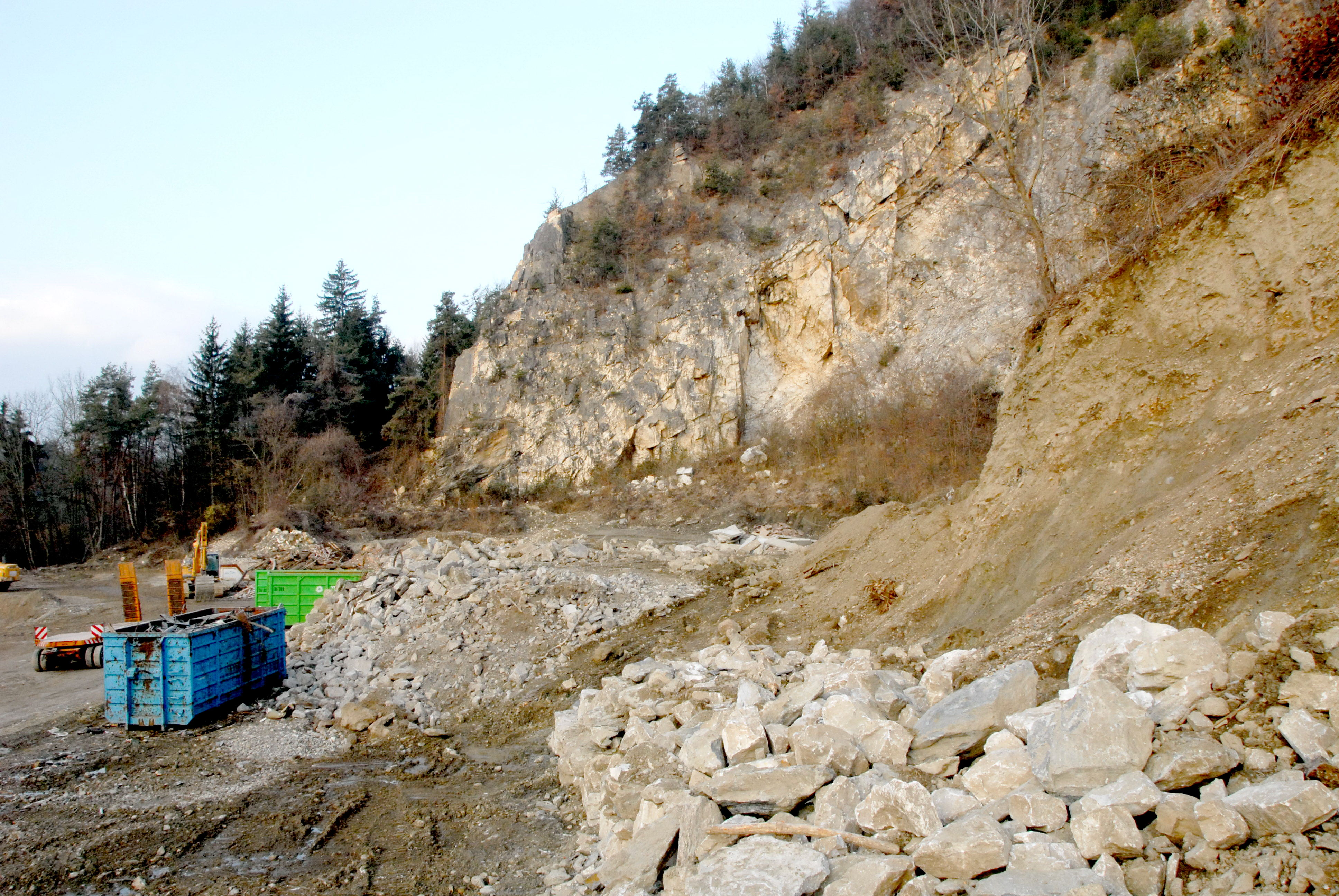 Marble quarry (abandonned) in Töschling, municipality Techelsberg am Wörther See, district Klagenfurt Land, Carinthia, Austria, EU